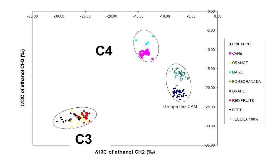 Figure 14 - With this method C3, C4 and CAM plant metabolism are well separated